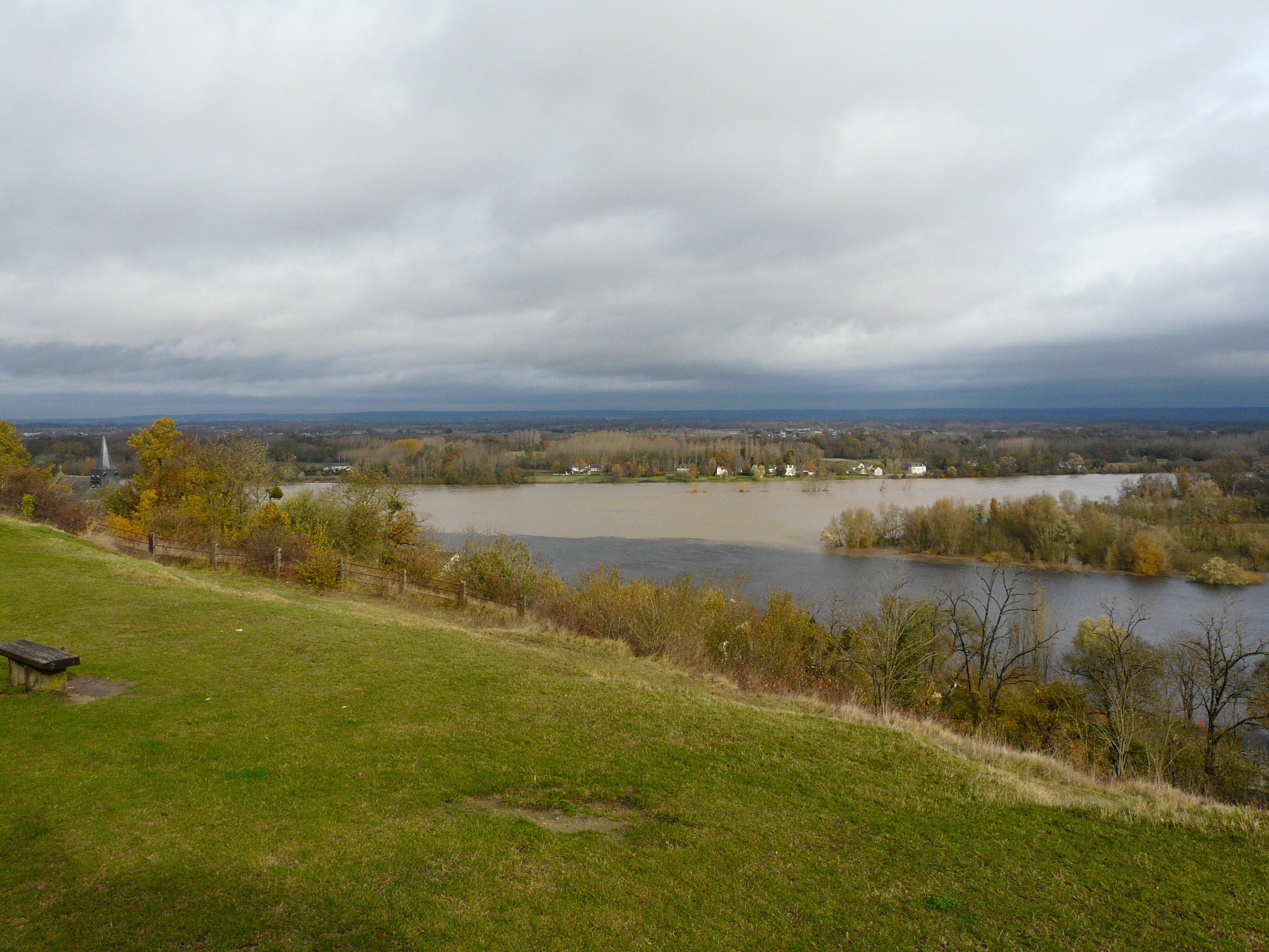 Confluence of the Vienne and the Loire rivers at Candes-Saint-Martin. The darkest river is the Vienne.